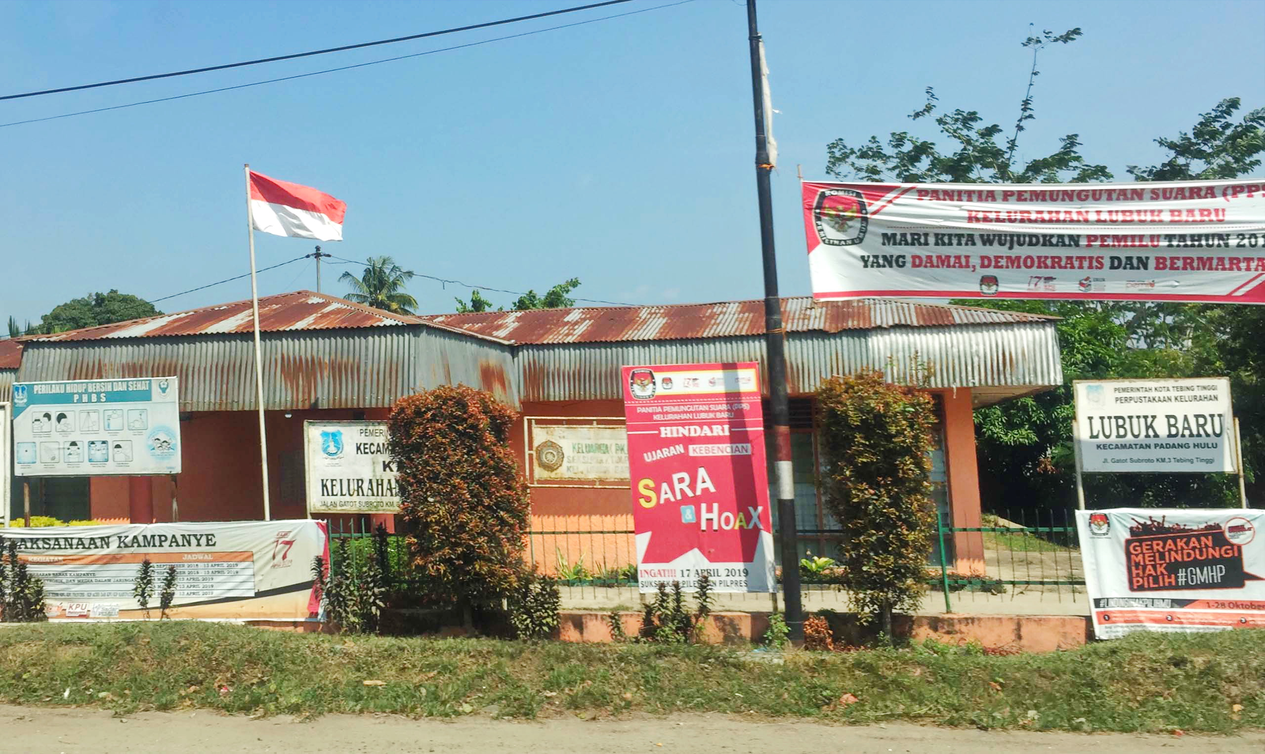 Office of Lubuk Baru, Padang Hulu, Tebing Tinggi